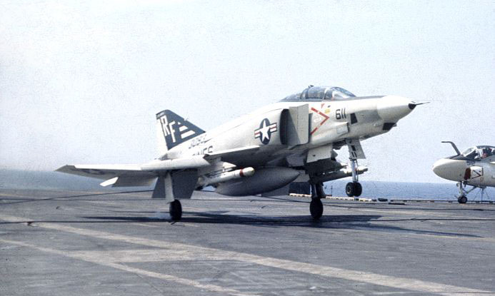 A U.S. Marine Corps McDonnell RF-4B-24-MC Phantom II (BuNo 153093) of Marine photo reconnaissance squadron VMFP-3 Eyes of the Corps landing on the aircraft carrier USS Midway (CV-41), circa 1976/77. A six-plane detachment of VMFP-3 was assigned to Carrier Air Wing Five (CVW-5) aboard the Midway from 1975 to 1984. The RF-4B 153093 was finally retired to the AMARC as 8F0338 on 9 August 1989.